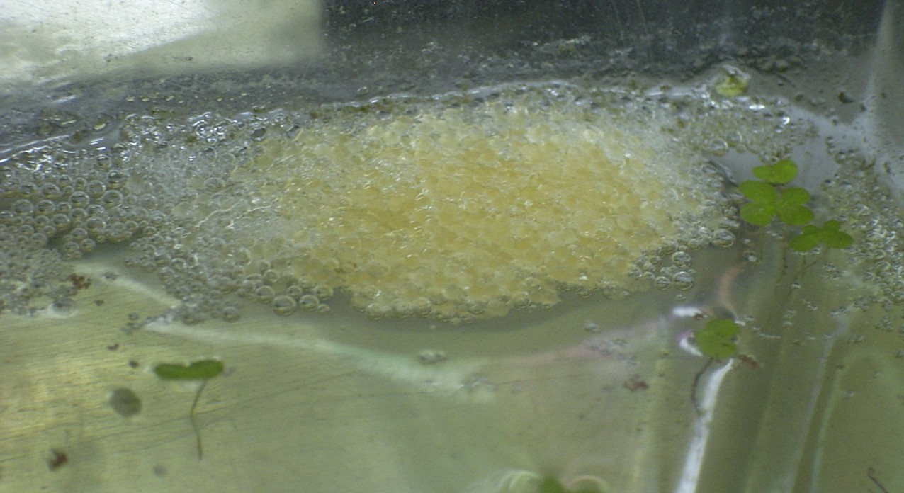 Author: Tenn Hian-kun Description: Paradise fish's spawn just be put into the bubble net by the male fish